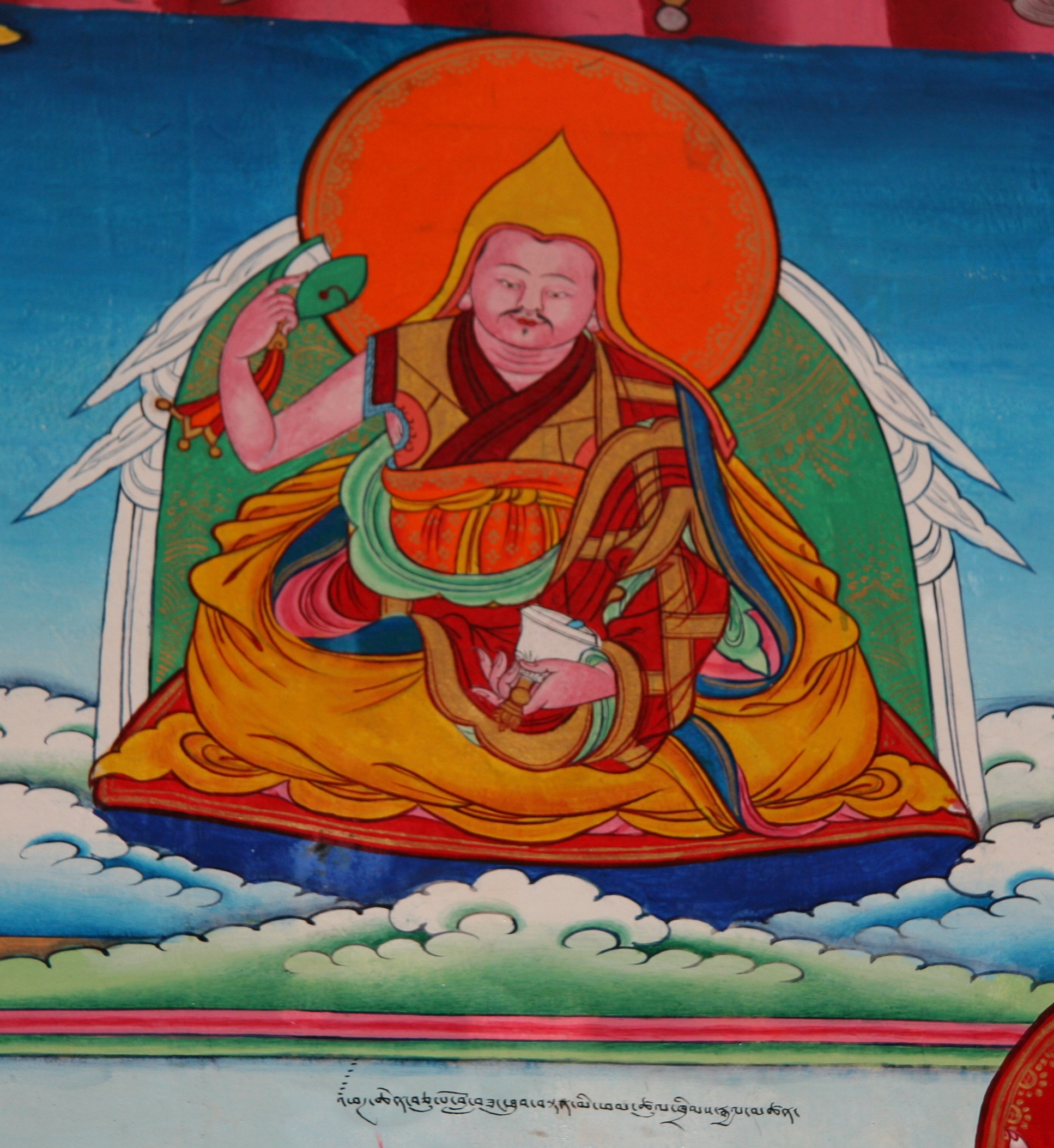 The Tenth Pakpa Lha, Lobzang Tubten Mipam Tsultrim Gyeltsen b.1901 - d.1939